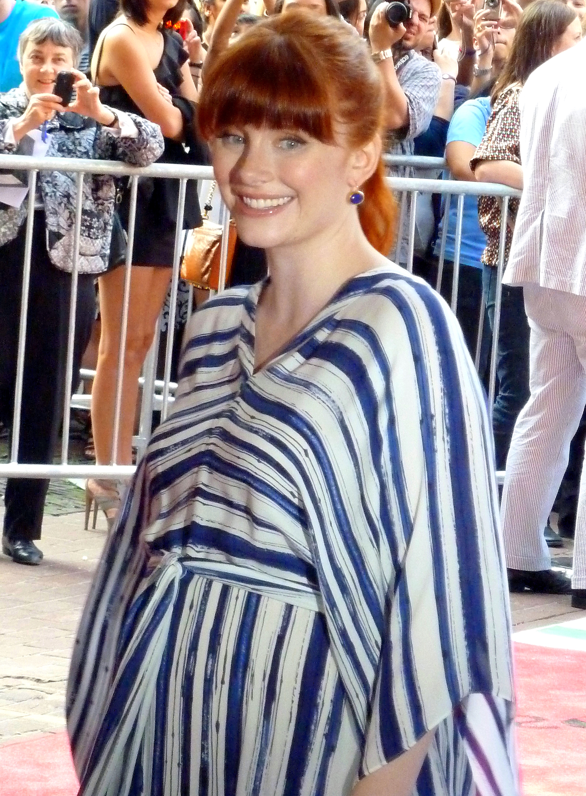 Bryce Dallas Howard at the Toronto International Film Festival 2011.